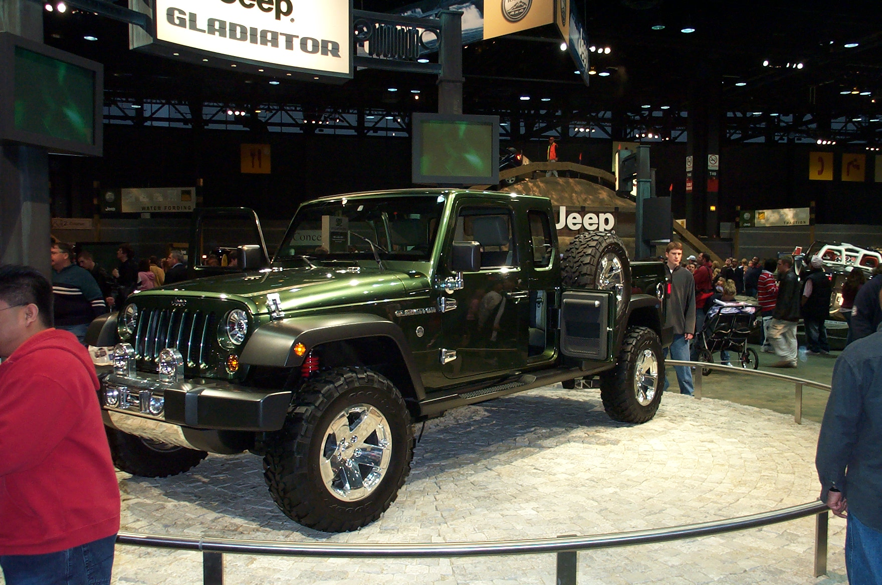 The Jeep Gladiator at the 2005 Chicago Auto Show.